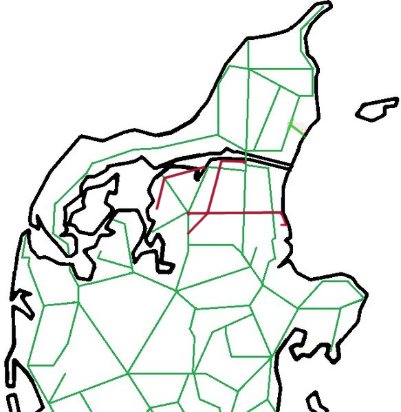 DK planned railway-lines Himmerland